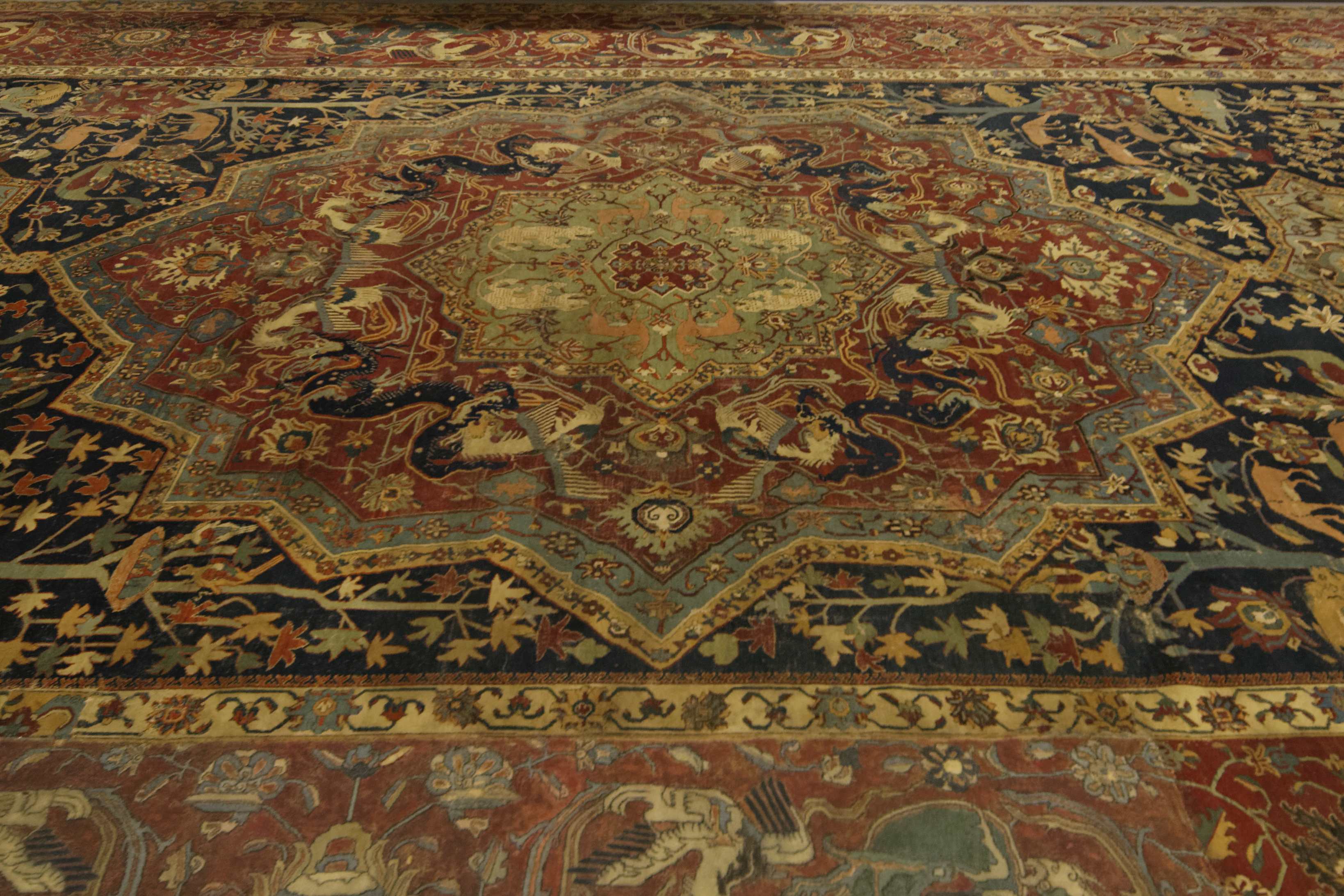 Detail from the "Mantes carpet", depicting animal and hunting scenes. Northwestern Iran, 16th century. Warp and weft: wool; pile: wool; knot: asymmetrical. The carpet once covered the floor of the collegiate church of Mantes-la-Jolie (Yvelines, France), hence its name.